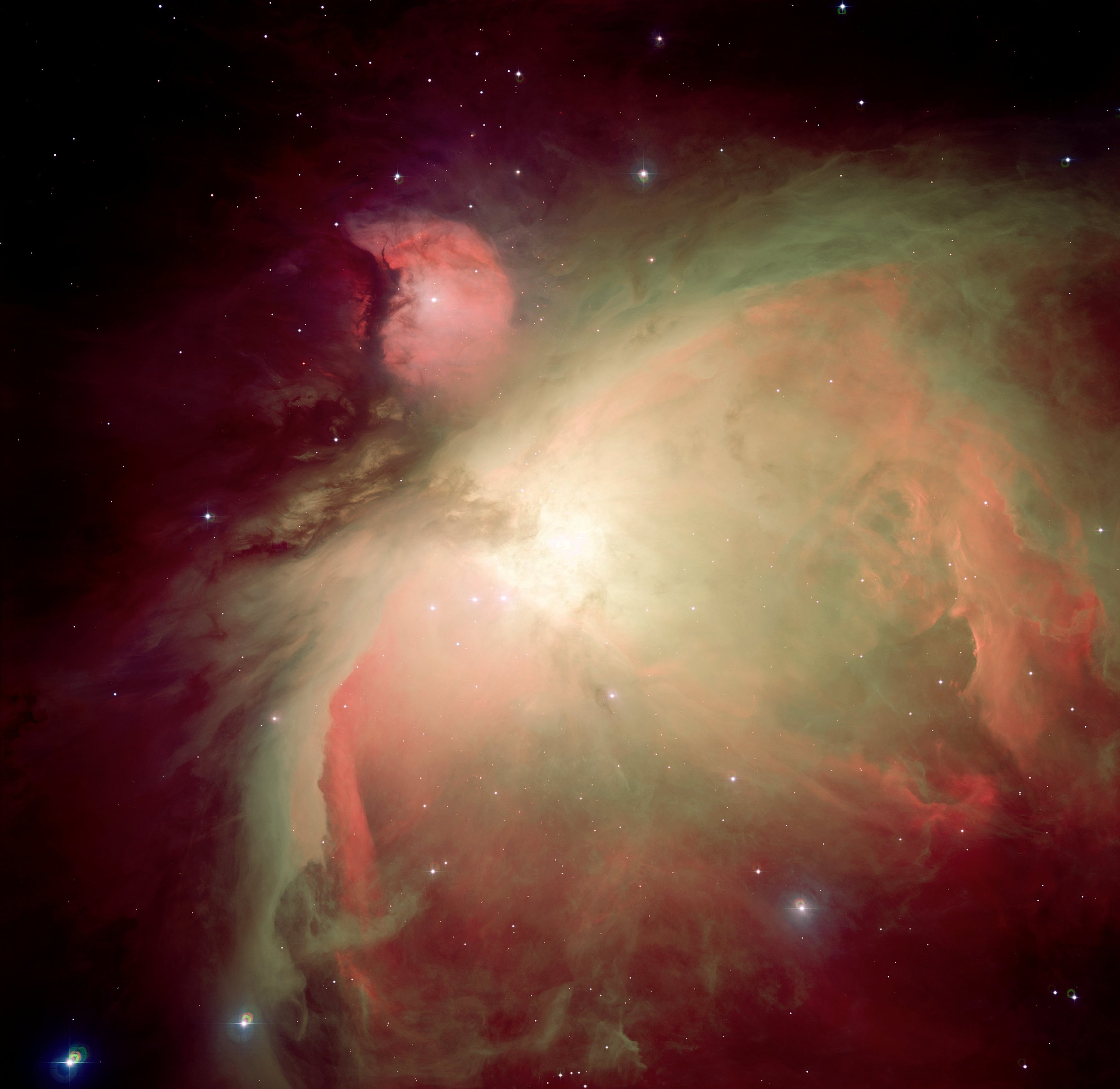 The majestic Orion Nebula imaged with the 2.2m ESO/MPG telescope.